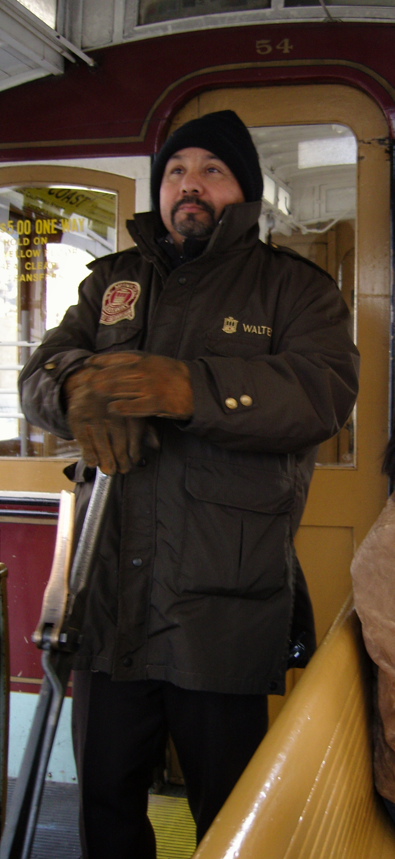 Grip Man on a cable car at San Francisco, California.